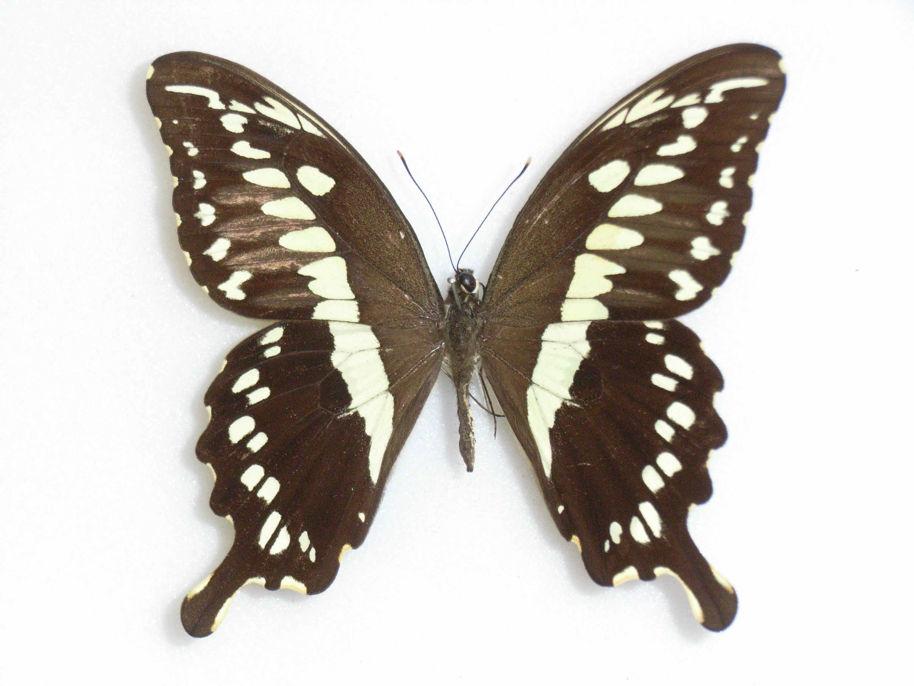 Papilio constantinus Ward,1871